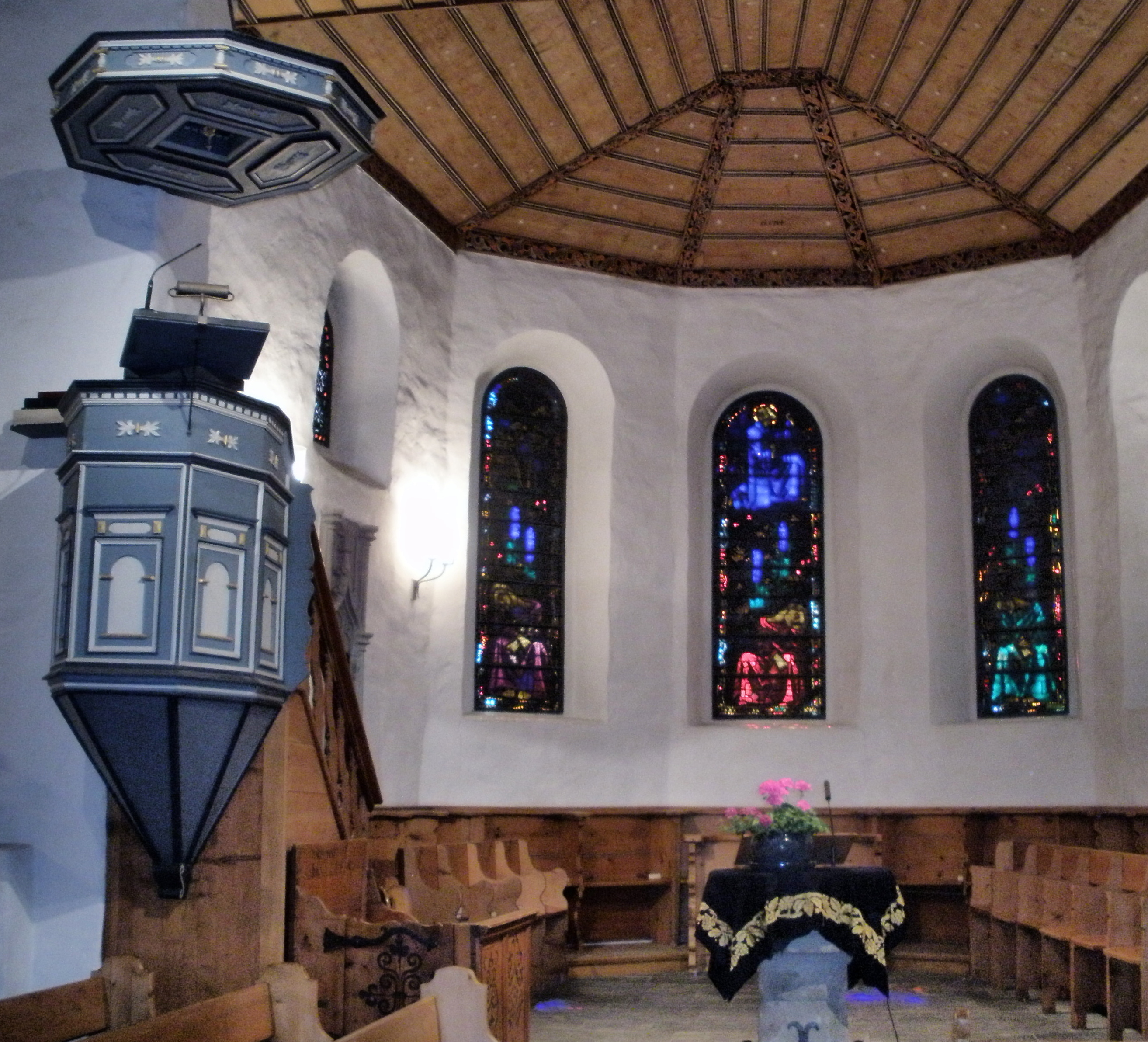 Interior of the church of Adelboden, Switzerland: pulpit and choir with windows by Augusto Giacometti.